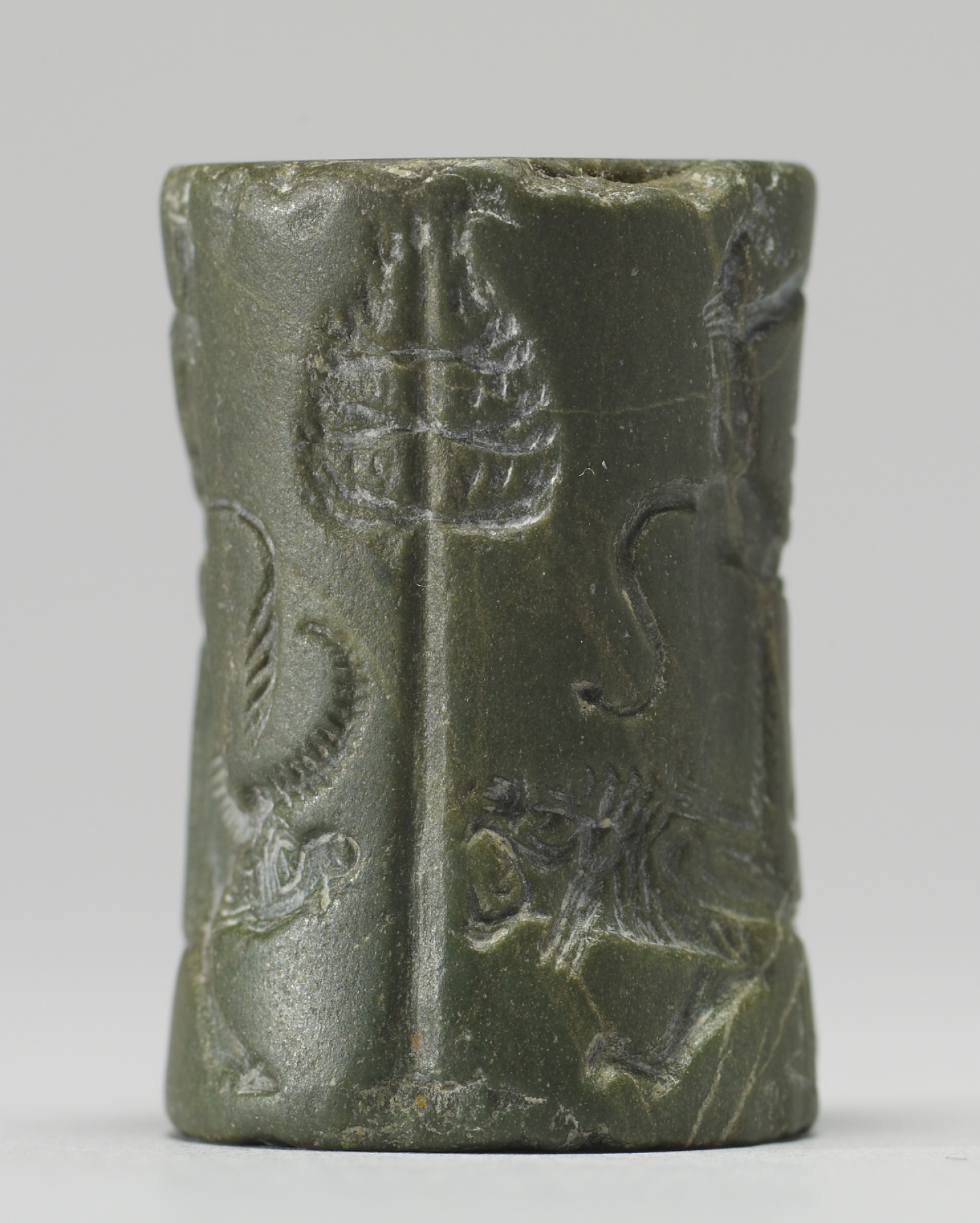 The scene on this seal features a central motif of a tree. On one side, a bearded hero is holding an inverted bovid; on the other, a bull man is holding an inverted lion. There are cuneiform inscriptions running through the scene in two places.